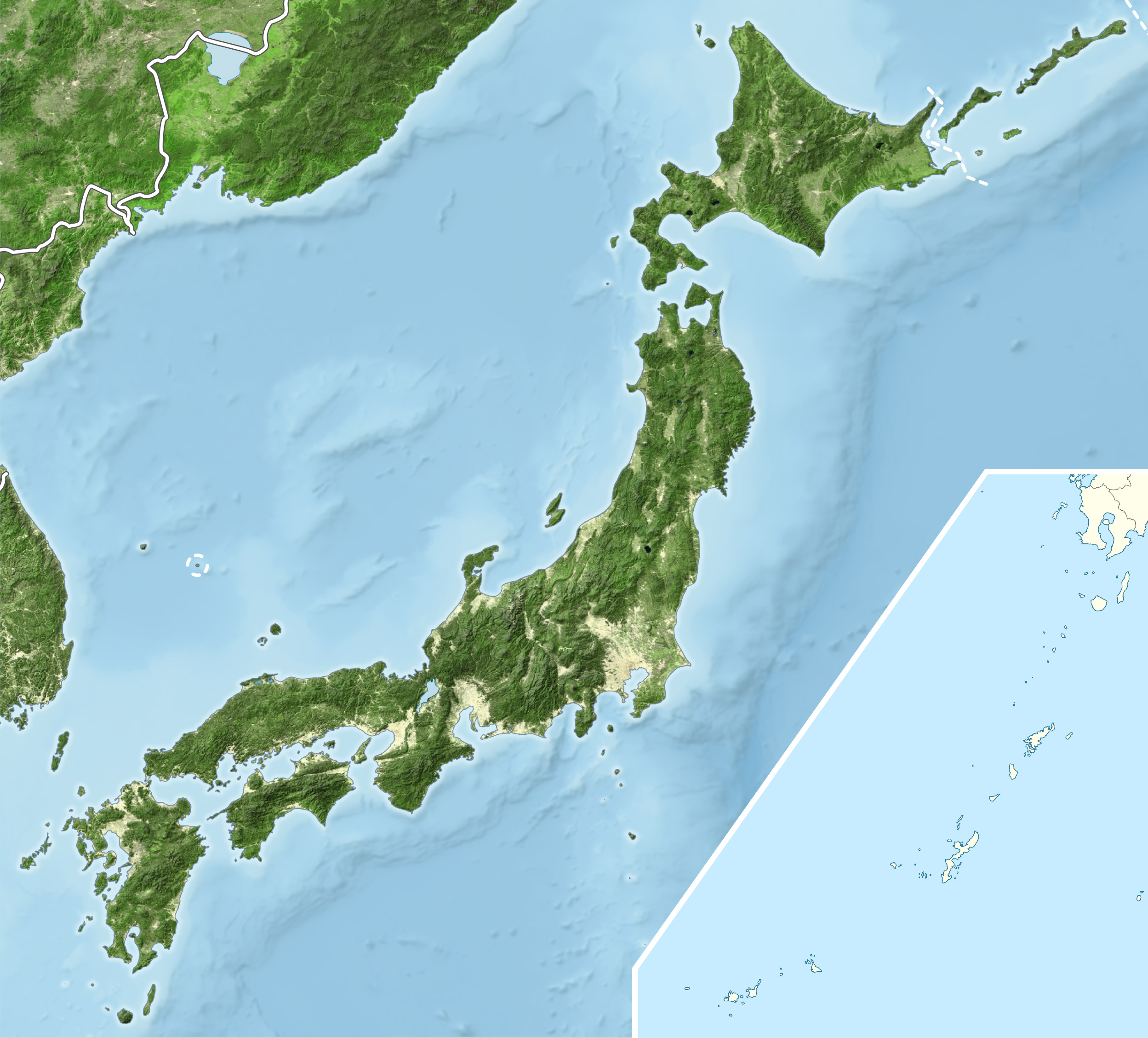 Blue Marble Location map of Japan Equirectangular projection. Geographic limits to locate objects in the main map with the main islands: N: 45°51'37" N (45.86°N) S: 30°01'13" N (30.02°N) W: 128°14'24" E (128.24°E) E: 149°16'13" E (149.27°E) Geographic limits to locate objects in the side map with the Ryukyu Islands: N: 39°32'25" N (39.54°N) S: 23°42'36" N (23.71°N) W: 110°25'49" E (110.43°E) E: 131°26'25" E (131.44°E)